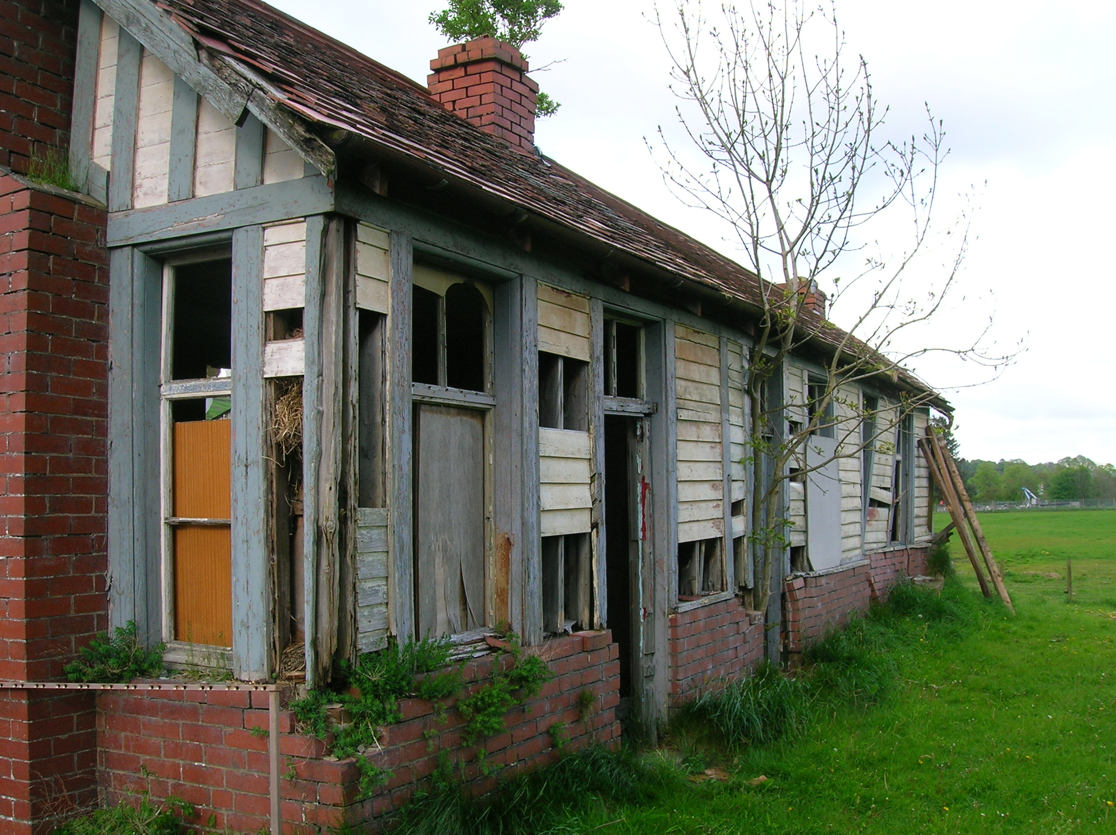 Moniaive station frontage, Cairn Valley, Scotland.